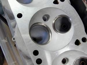 Closeup of Hemispherical Combustion chamber